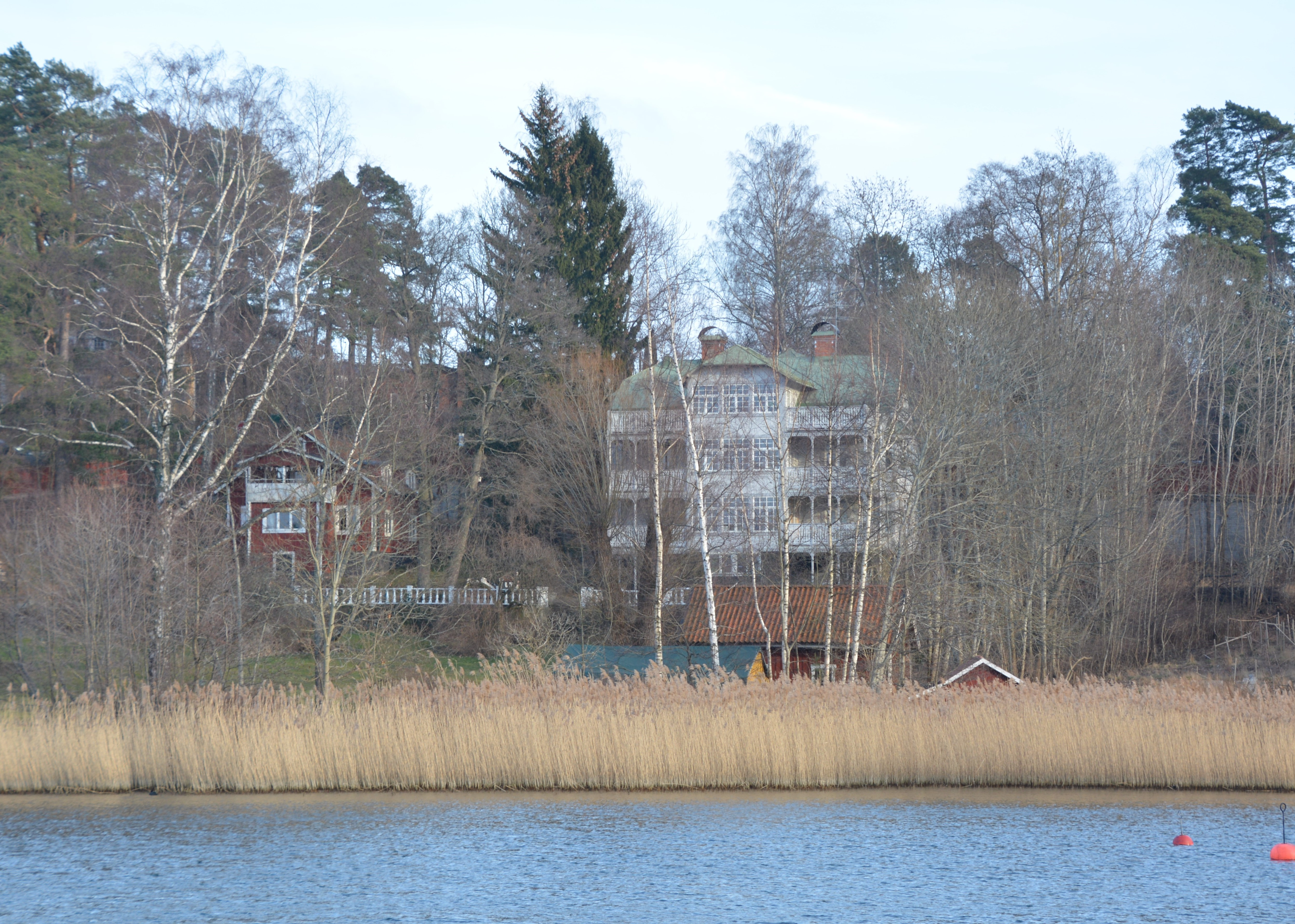 Villa at Vik, Värmdö, Sweden, earlier lodging house